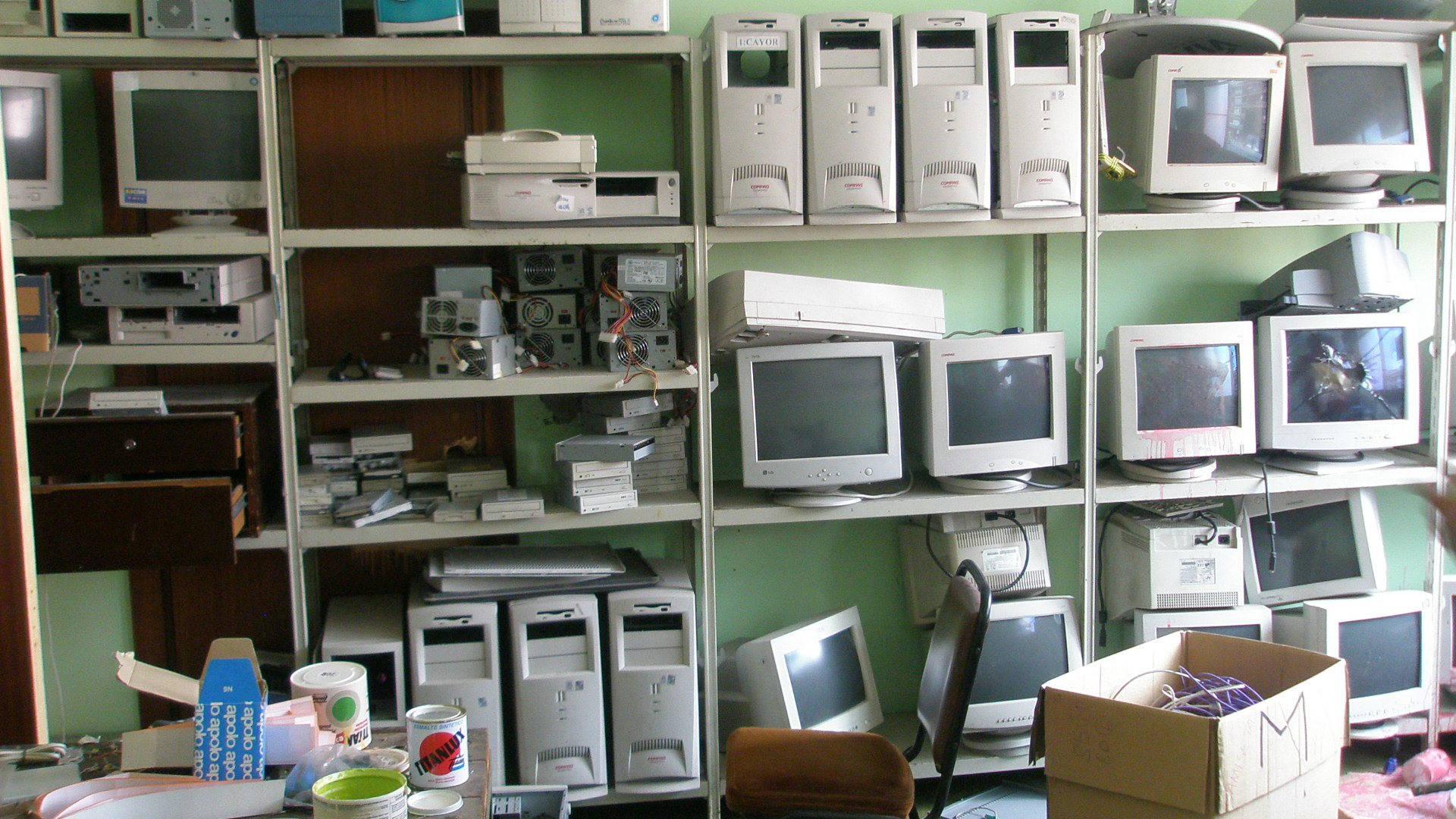 Electronic waste after a Hackmeeting.